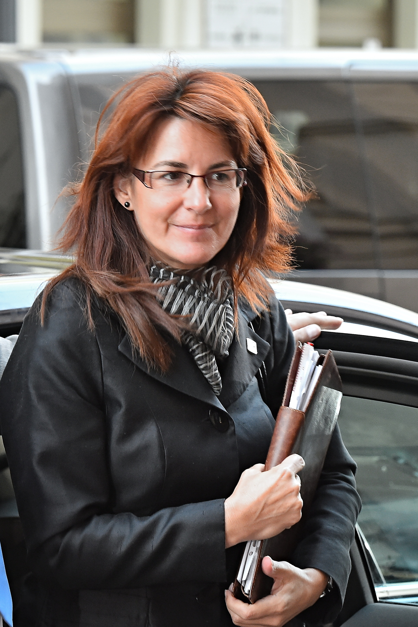 Informal FAC/defence- Slovenia, Mrs Andre ja Katič, Minister of Defence Photo Rastislav Polak